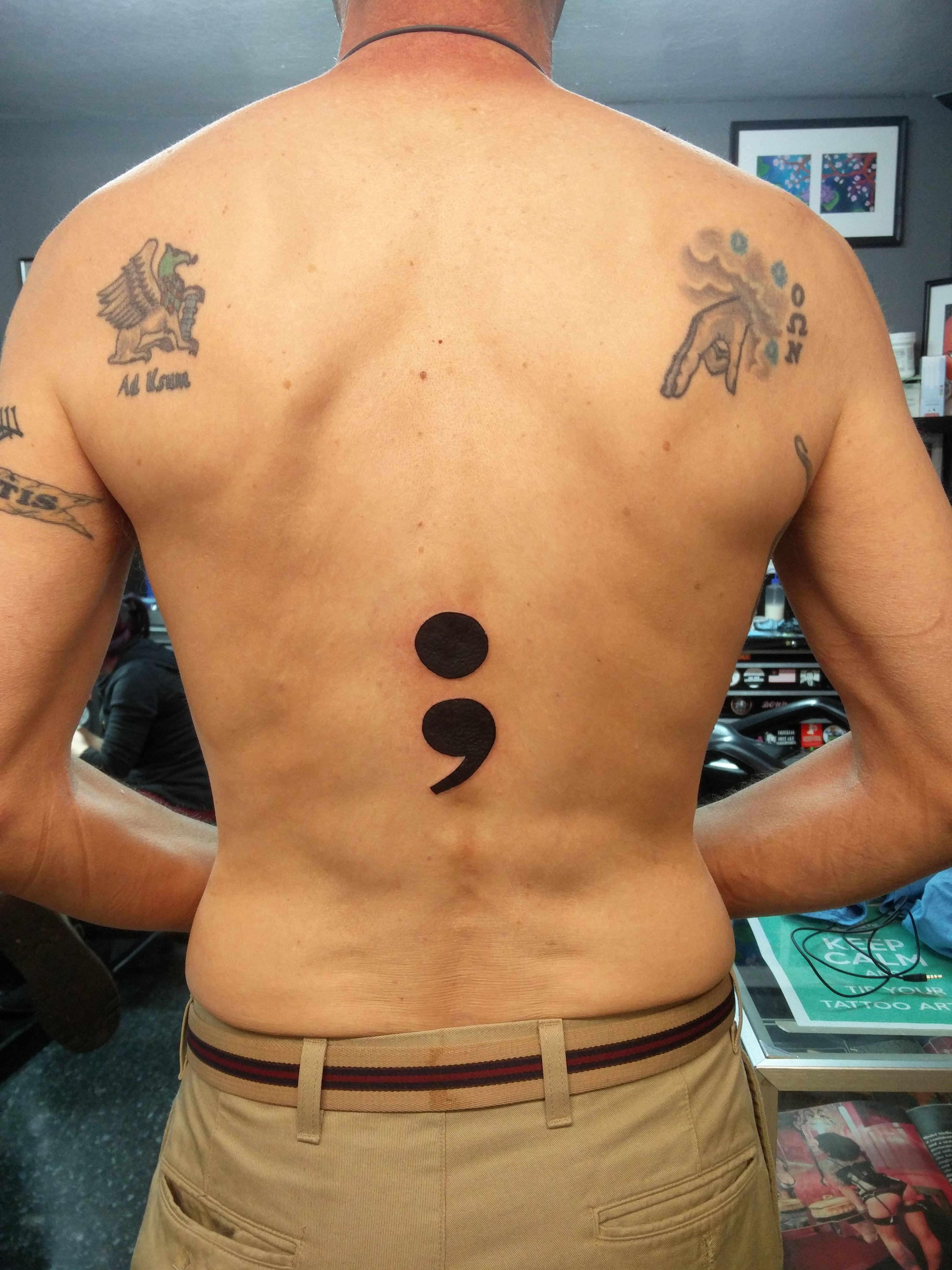 A Trinitarian back piece tattoo; the semicolon represents God the Holy Ghost. Resurrected Tattoo; Donna Carter Cozza is the artist.